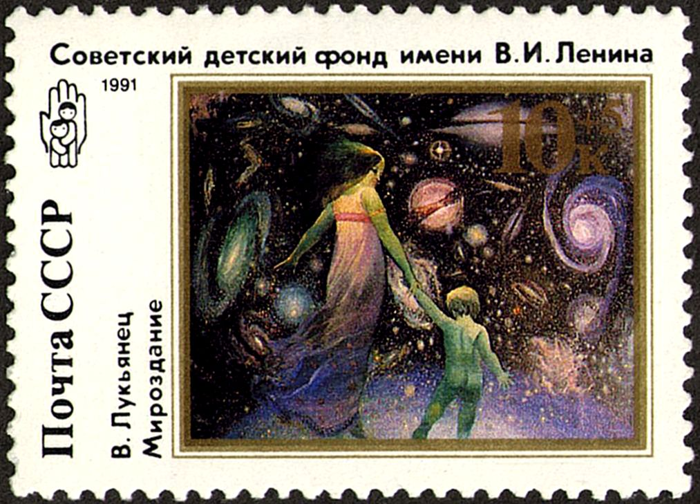 The semi-postal stamp of the Soviet Union for Lenin Soviet Children’s Fund, 10 kopecks of postage + 5 kopecks of surcharge.Paintings. The Universe by Vitaly Lukyanets. 1973.1 June 1991, CPA Catalogue No 6325, Michel No 6202, Scott No B181. Coated paper. Offset printing. Perforation: comb 12¼×12. Size of the stamp: 42×30 mm. Print run: 2,200,000.